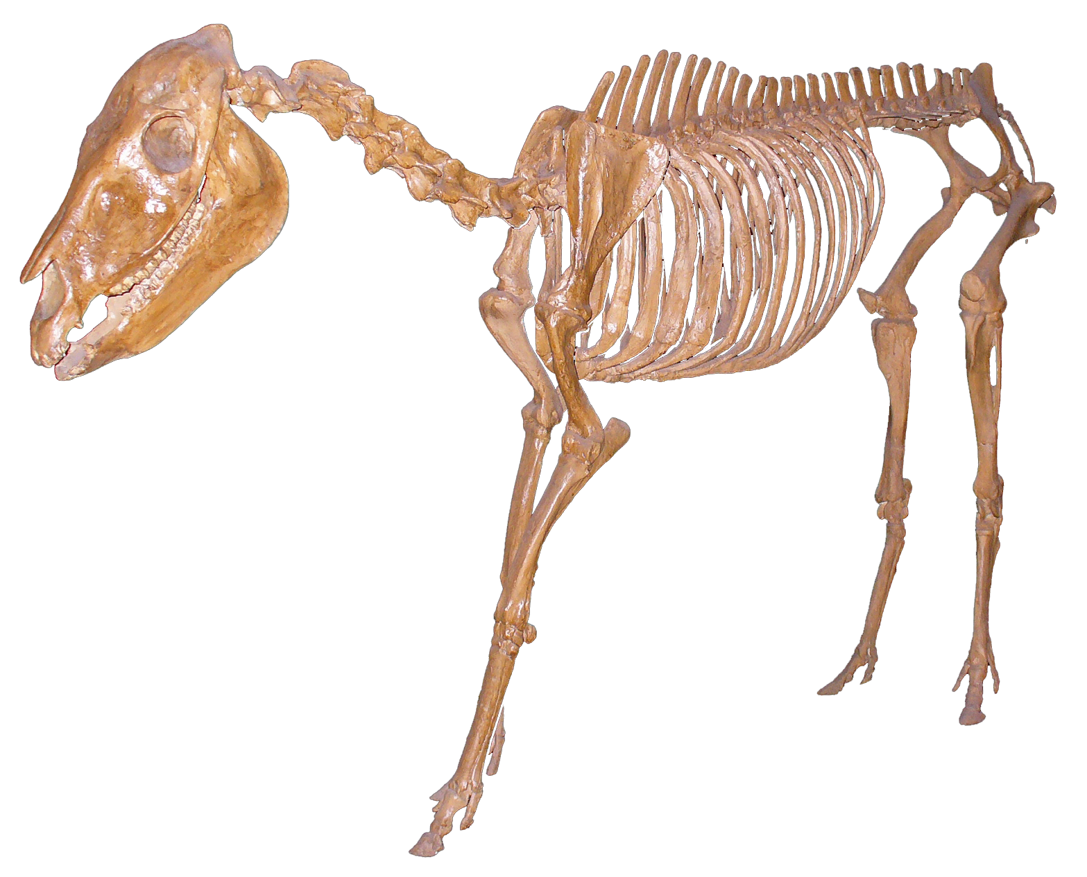 Skeletal reconstruction of Merychippus